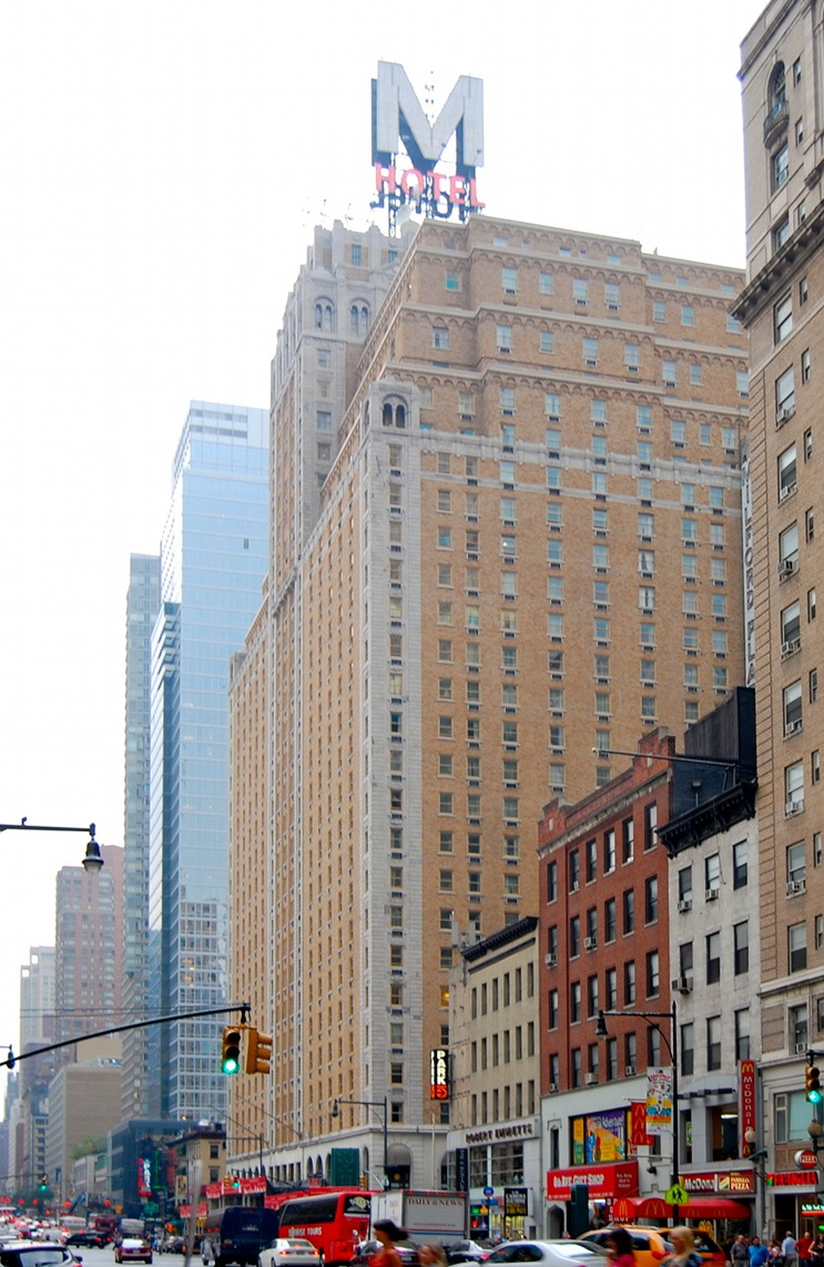 Milford Plaza Hotel at 700 8th Ave, New York, New York. It's website says it closed in December 2009.